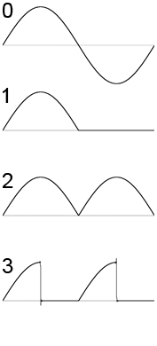 YM3812 oscillator waveforms reverse-engineered from the digital output